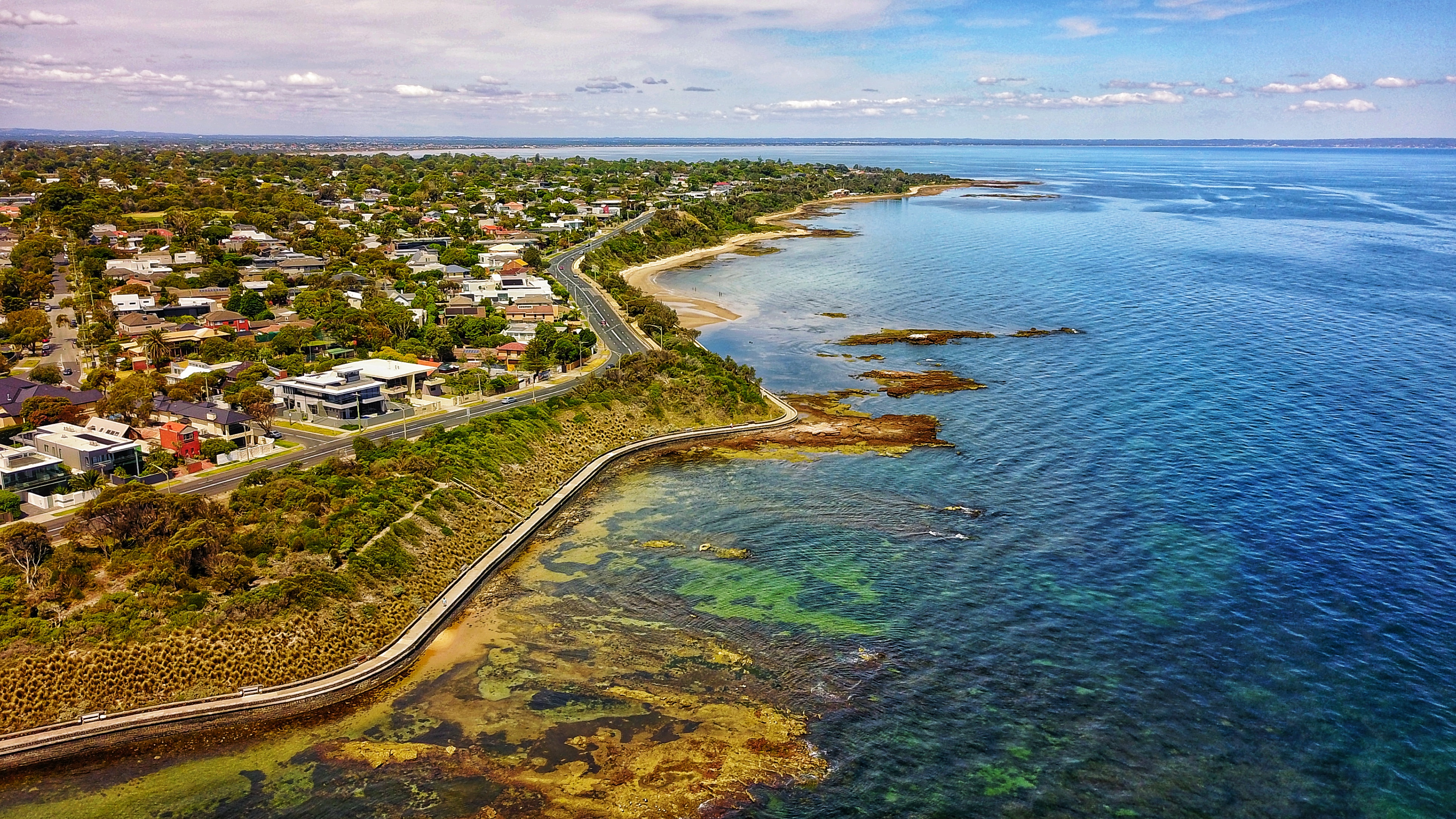 Aerial perspective of Black Rock, facing south along Port Philip Bay. Jan 2019.